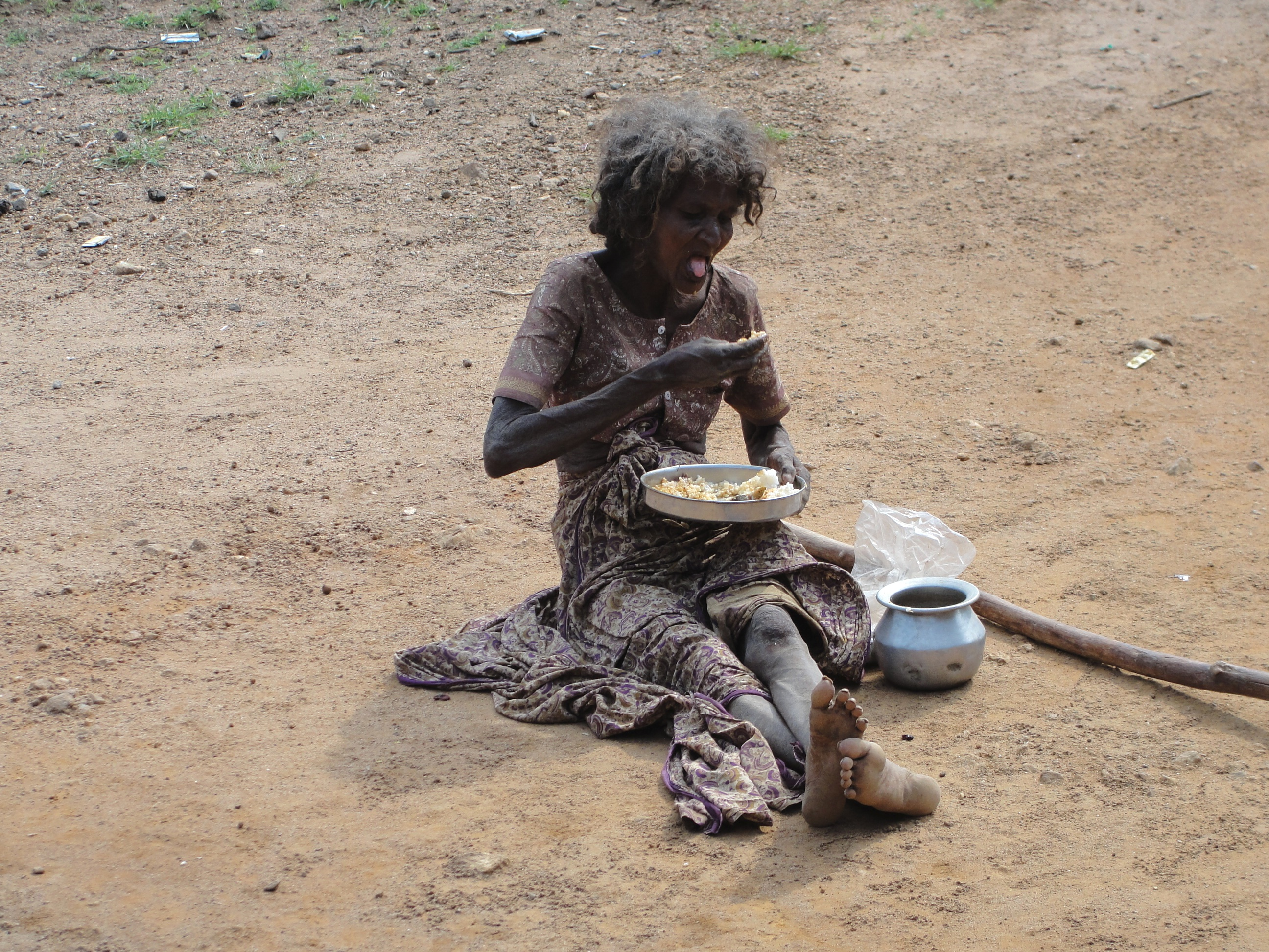 1work together words for this. No Description for this. Only my experience. 'Tears came in my eyes when I was clicking this Mom'. I came across this heart breaking situation when I was visiting the forests in Parambikkulam, Kerala, India.